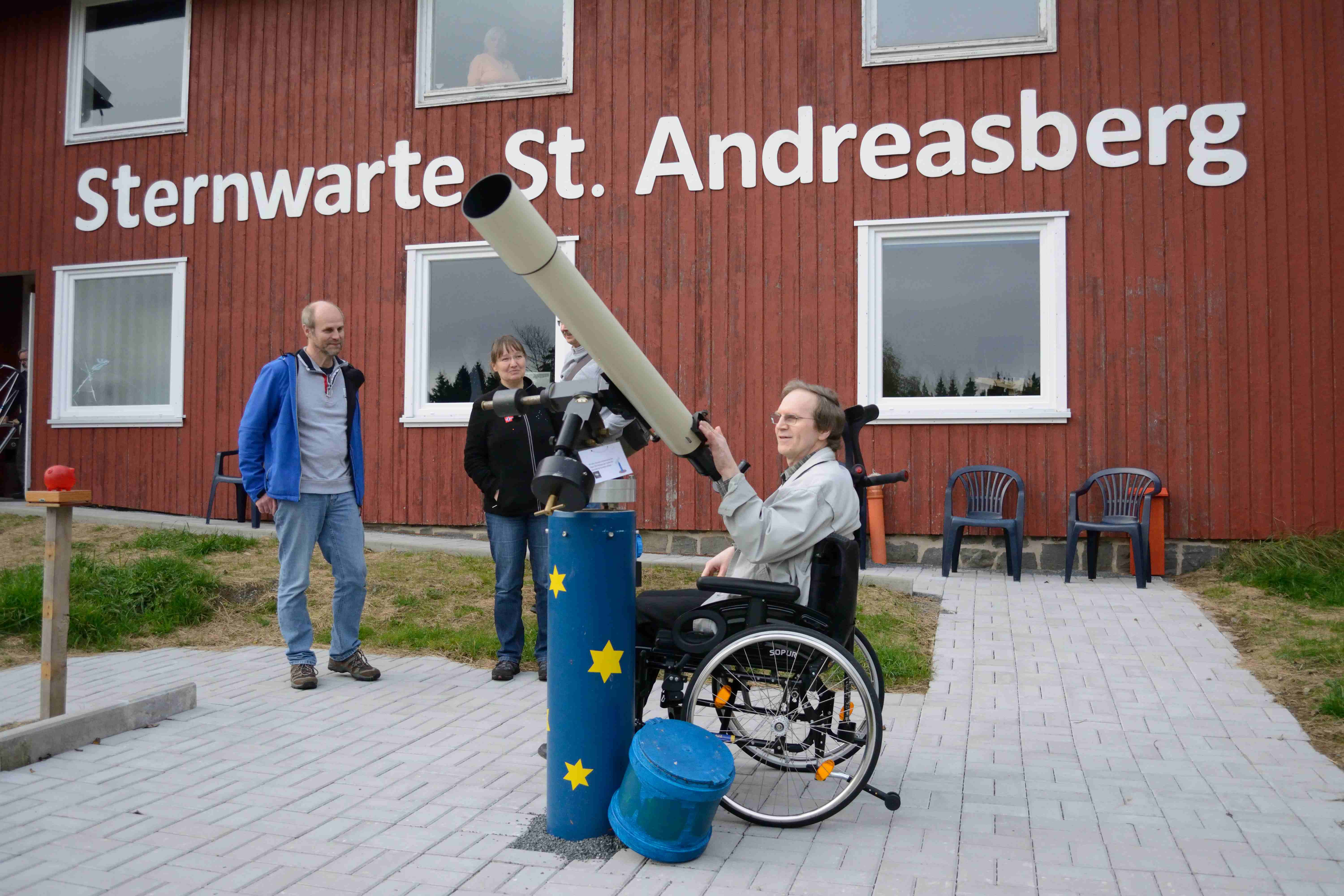 One of the wheelchair accessible telescope stands in the Sankt Andreasberg Oberservatory